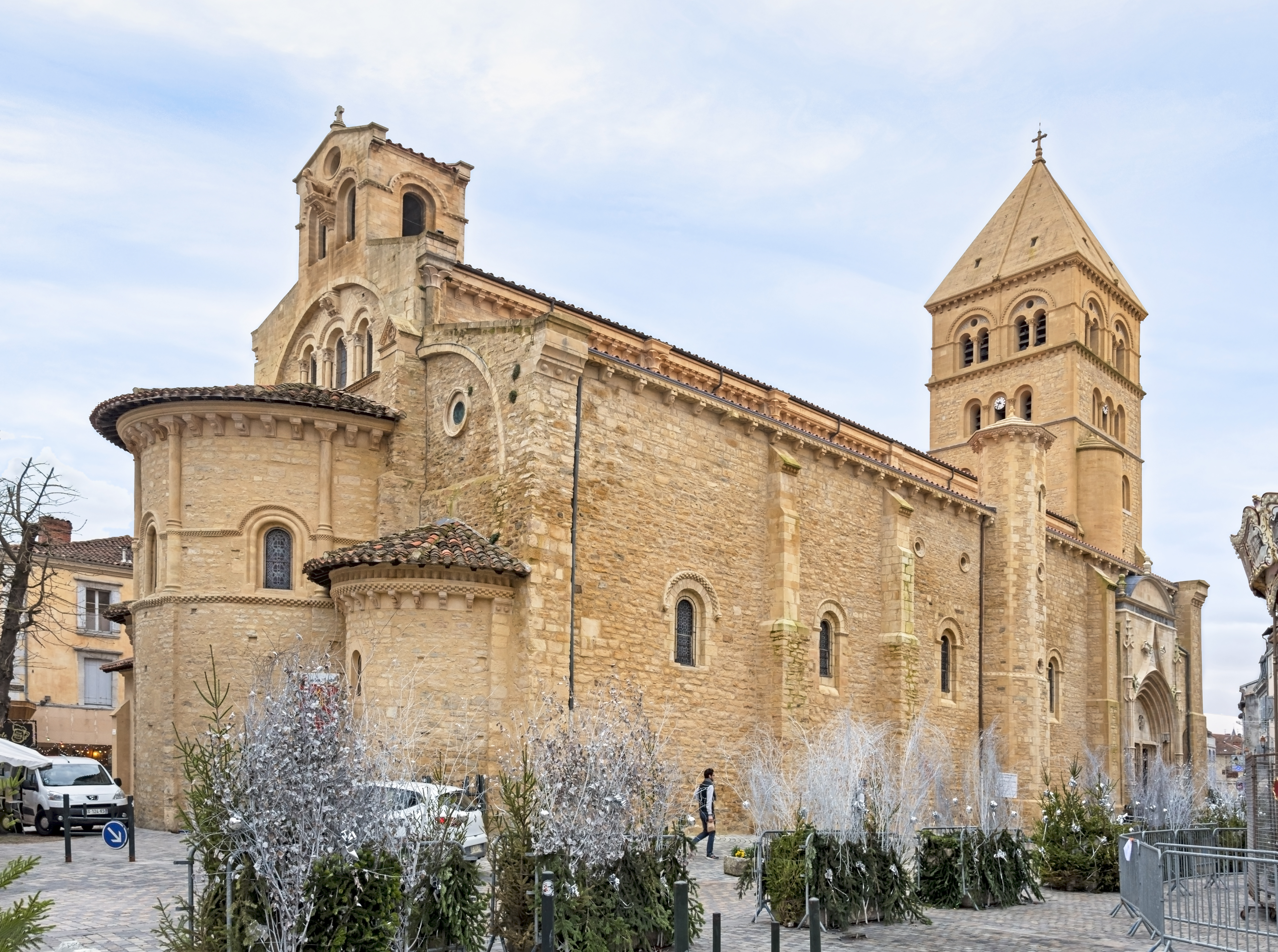 Collégiale Saint-Pierre et Saint-Gaudens in Saint-Gaudens, Haute-Garonne, France